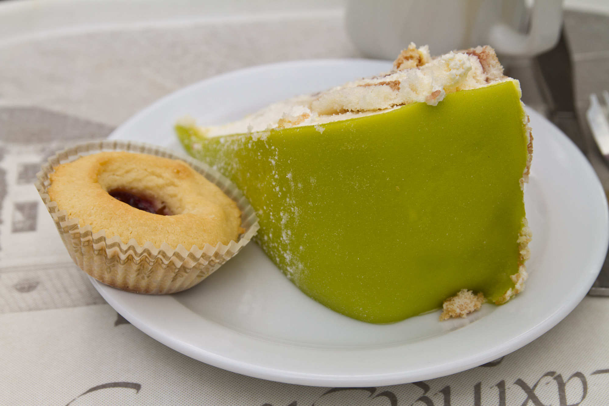 Prinsesstårta (swedish cake) Hallongrottor (swedish pastry)